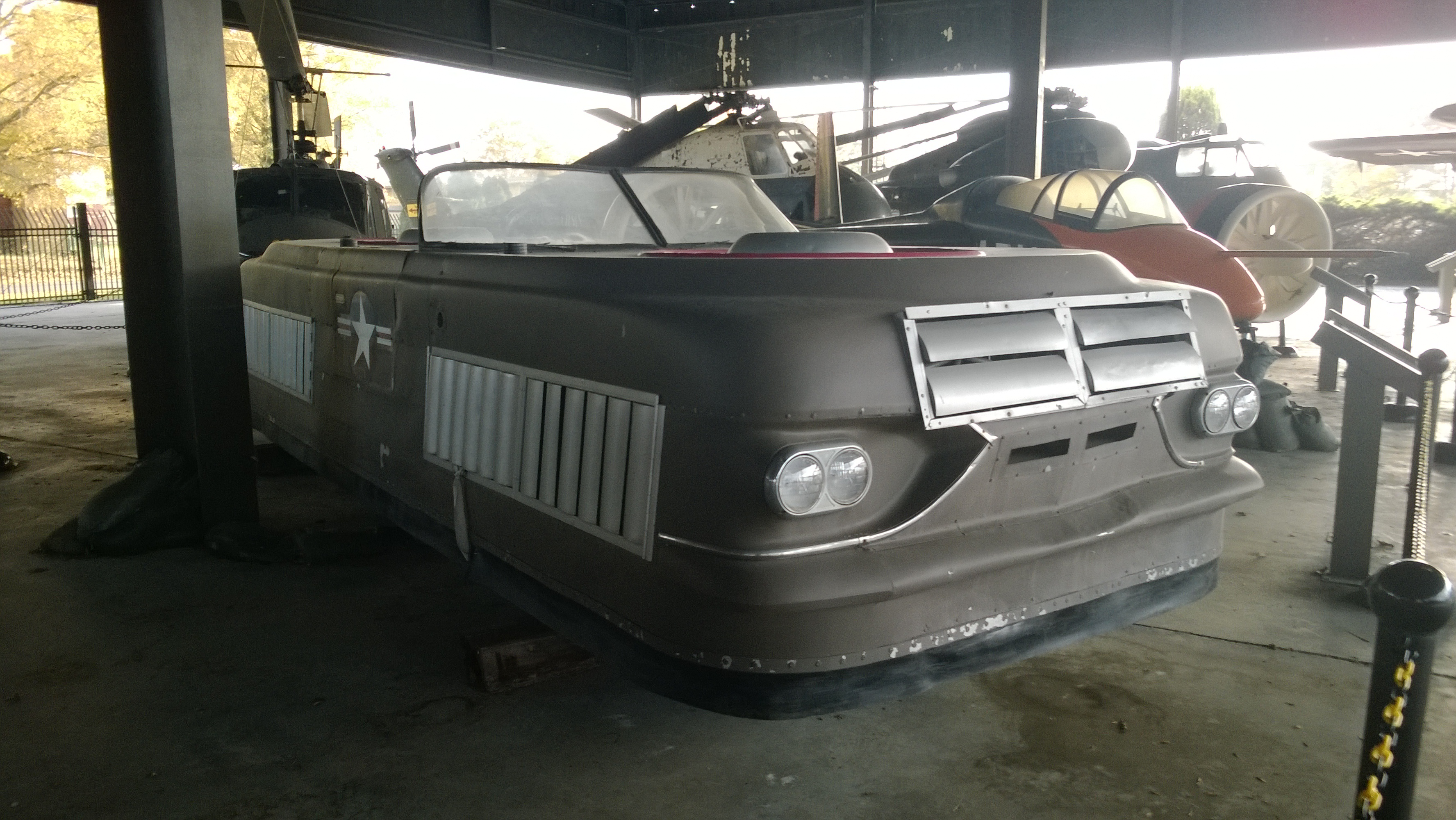 The Curtis-Wright GEM 2500 hovercar at the US Army Transportation museum, Fort Eustis, VA.